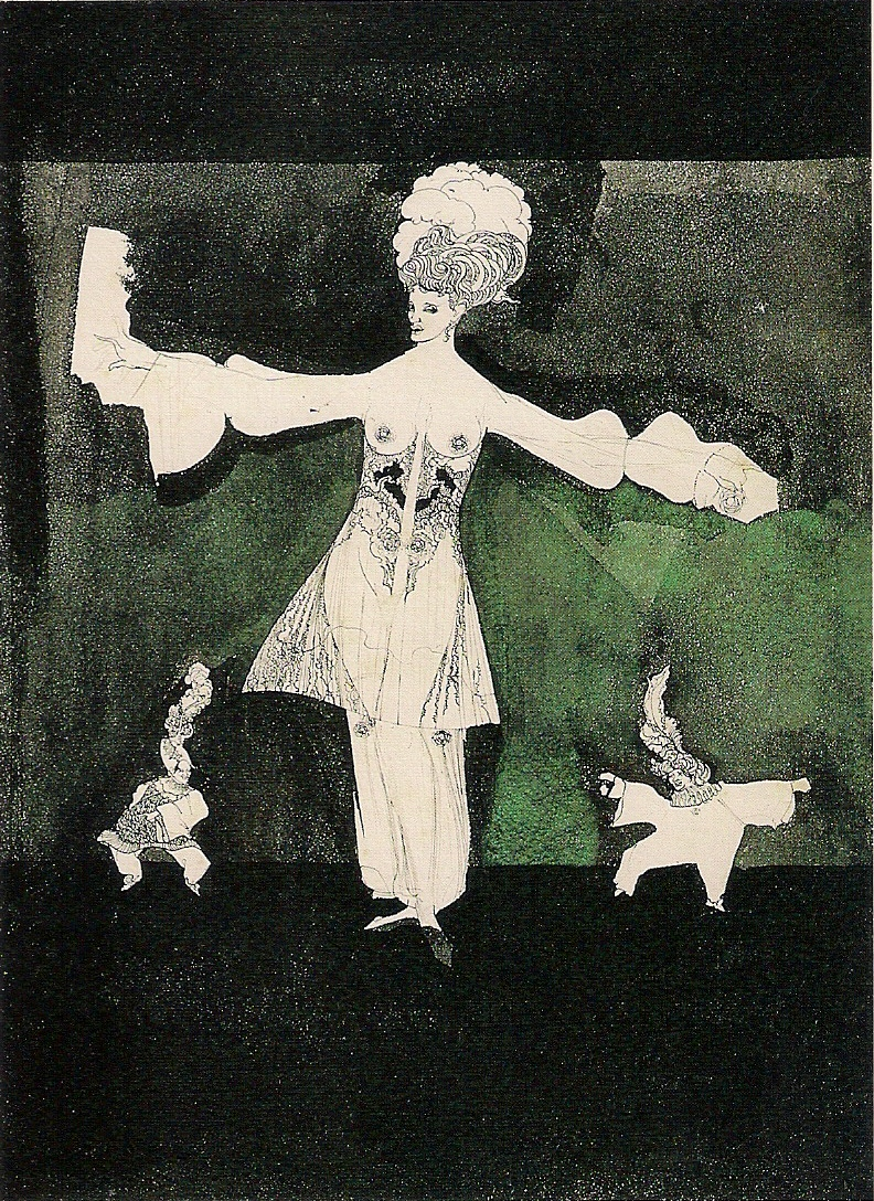 clownerie 1904